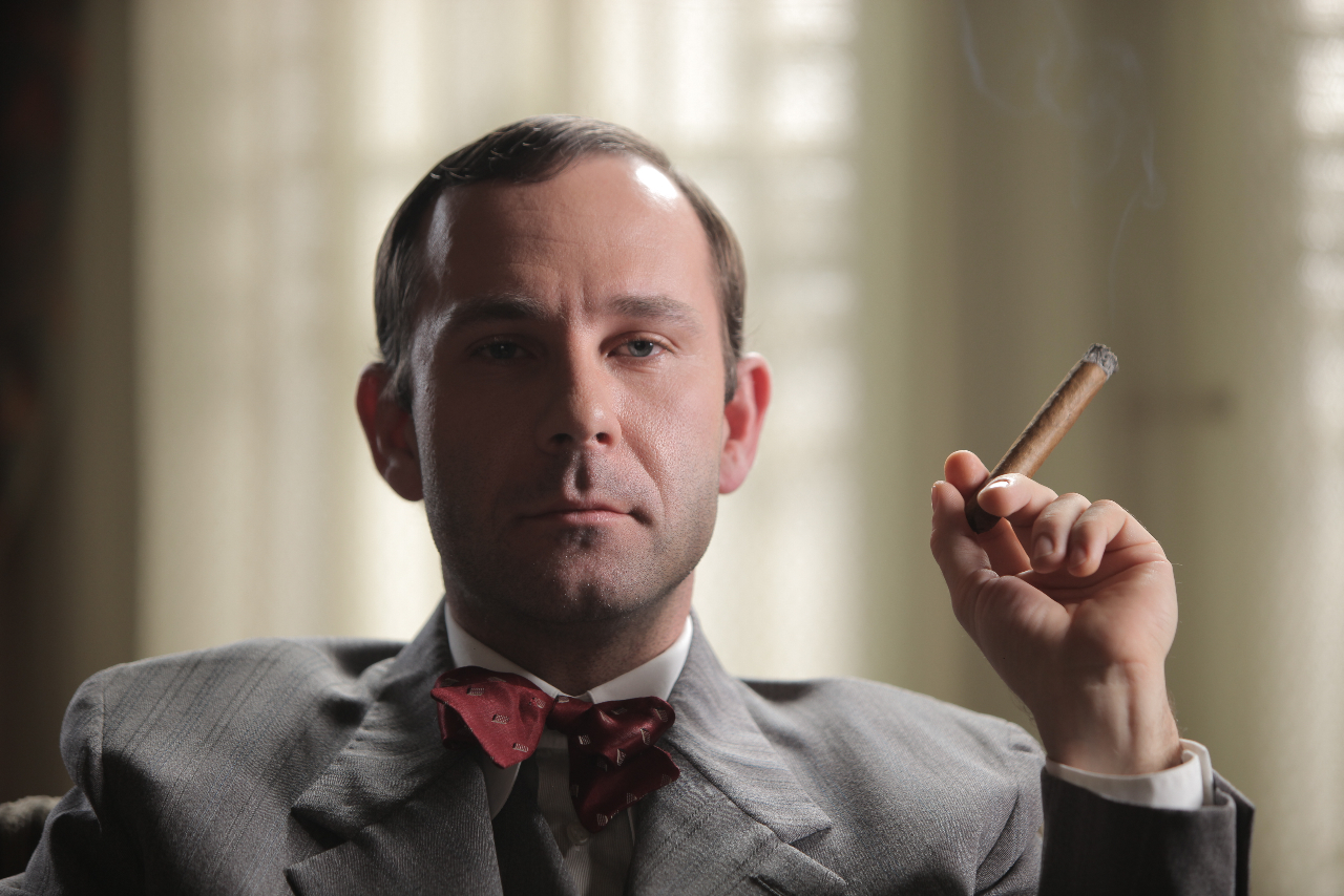 Daniel Svab